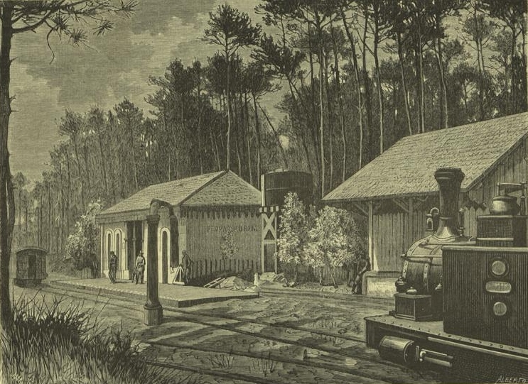 Drawing of the Pedras Rubras Railway Station in its early years. This station was part of the Porto to Póvoa Railway, in Portugal. This image was published on the Occidente magazine No. 11, of the 1st June 1878, and scanned by the Hemeroteca Municipal de Lisboa.